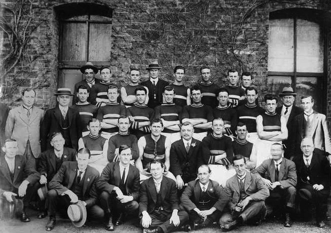 1920 SAFL premiers North Adelaide team photo. North Adelaide Australian Rules Football 1920 premiership team and officials. Second row sitting L-R Percy Lewis, G. Trescowthick, Tom Leahy, J.F. Bennett (Hon. Treasurer), Jack 'Snowy' Hamilton